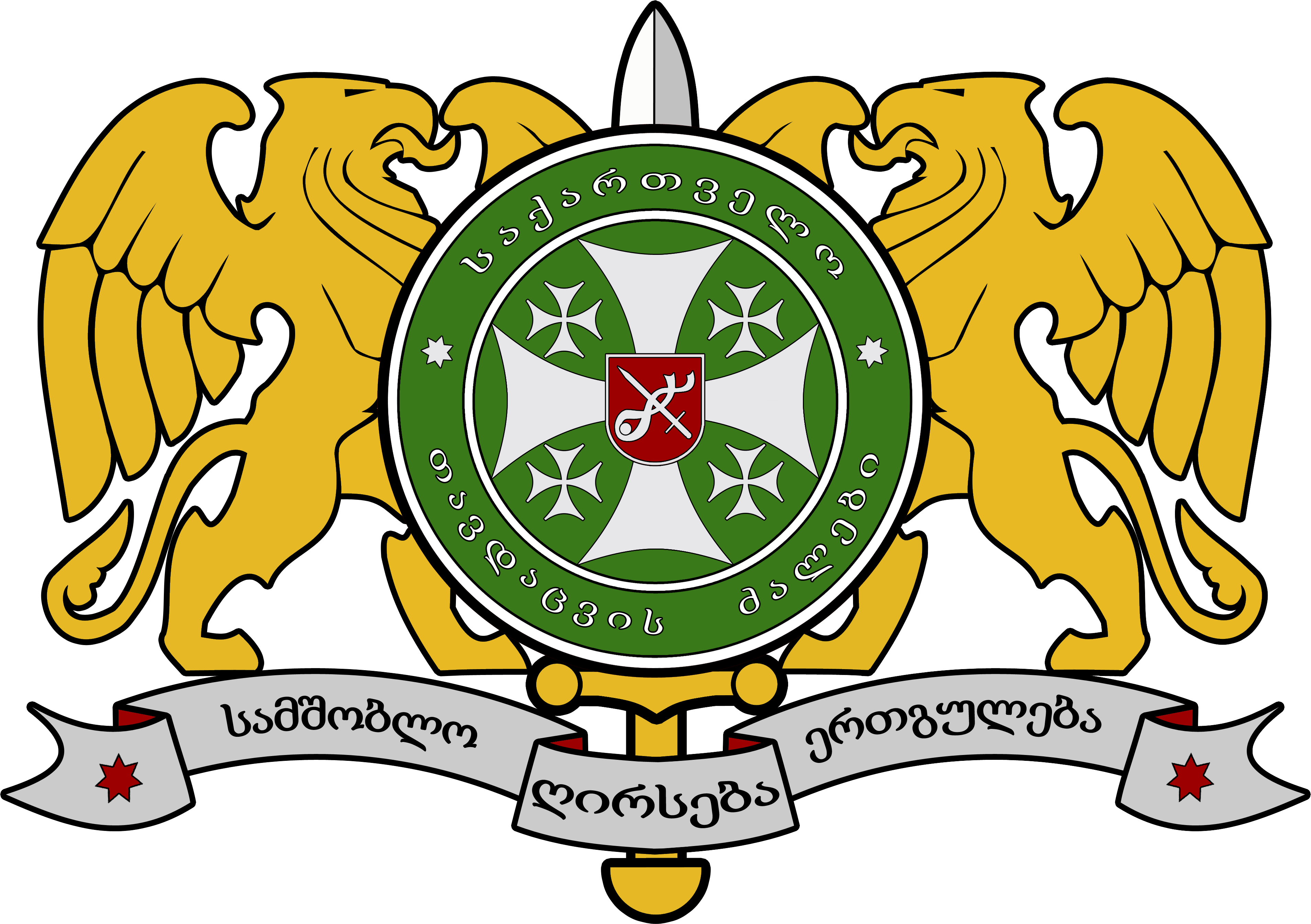 e6b825 / e8b923